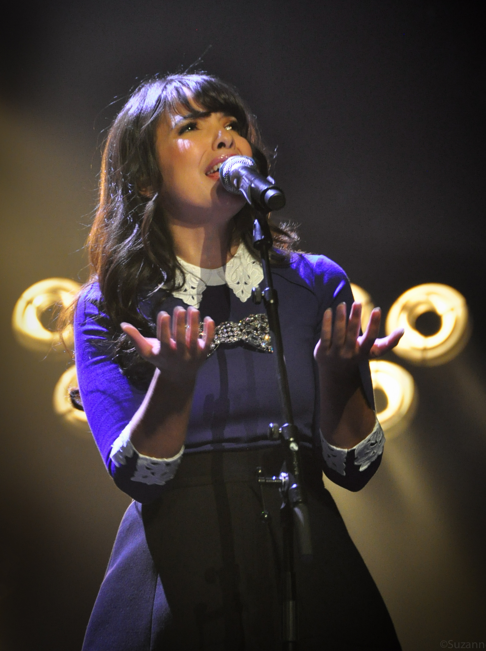 French singer Indila at the European Border Breakers Awards Show 2015.